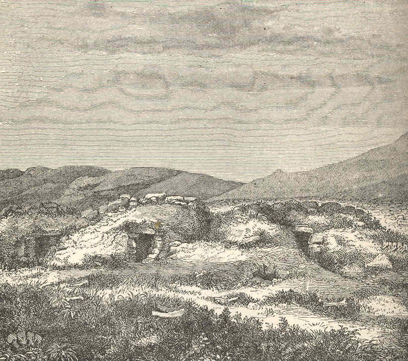 Ruined Esquimaux Huts on Sabine Island Subject: Inuit--Antiquities, Inuit--Housing, Sabine Island (Greenland) Geographic Subject: Greenland--Sabine Island Tag: Polar, Antiquities